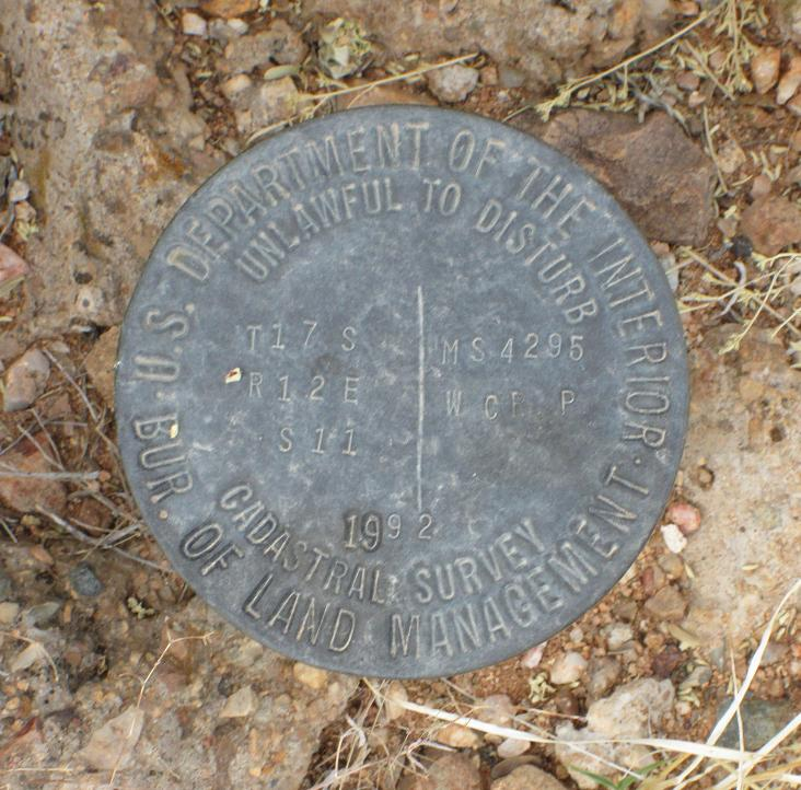 Bureau of Land Management cadastral survey marker from 1992 in San Xavier, Arizona.